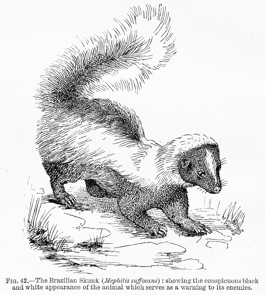 Black-and-white figure of 'The Brazilian Skunk Mephitis suffocans from Edward Bagnall Poulton's The Colours of Animals 1890. Poulton introduced the term 'Aposematic' for signs like the skunk's warning coloration.